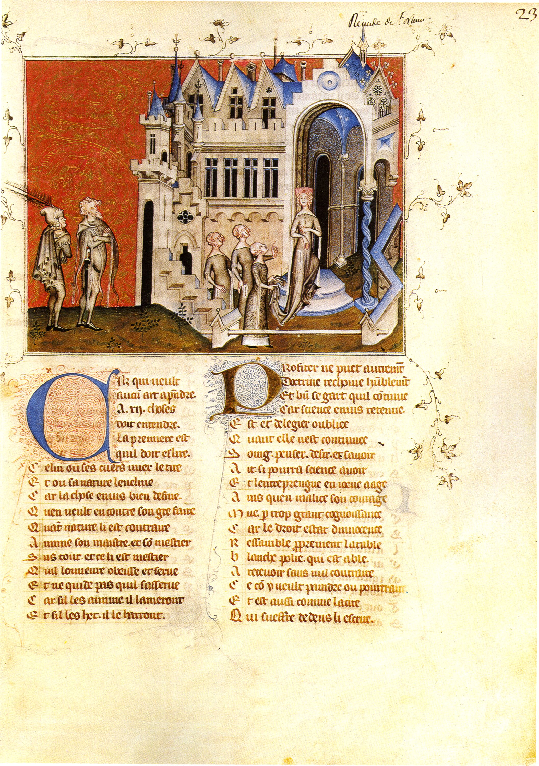 An illumination in a manuscript of Guillaume de Machaut’s verse novel Le remède de fortune, showing the author arriving at the castle of his lady. Paris, Bibliothèque Nationale, Ms. fr. 1586, fol. 23r.